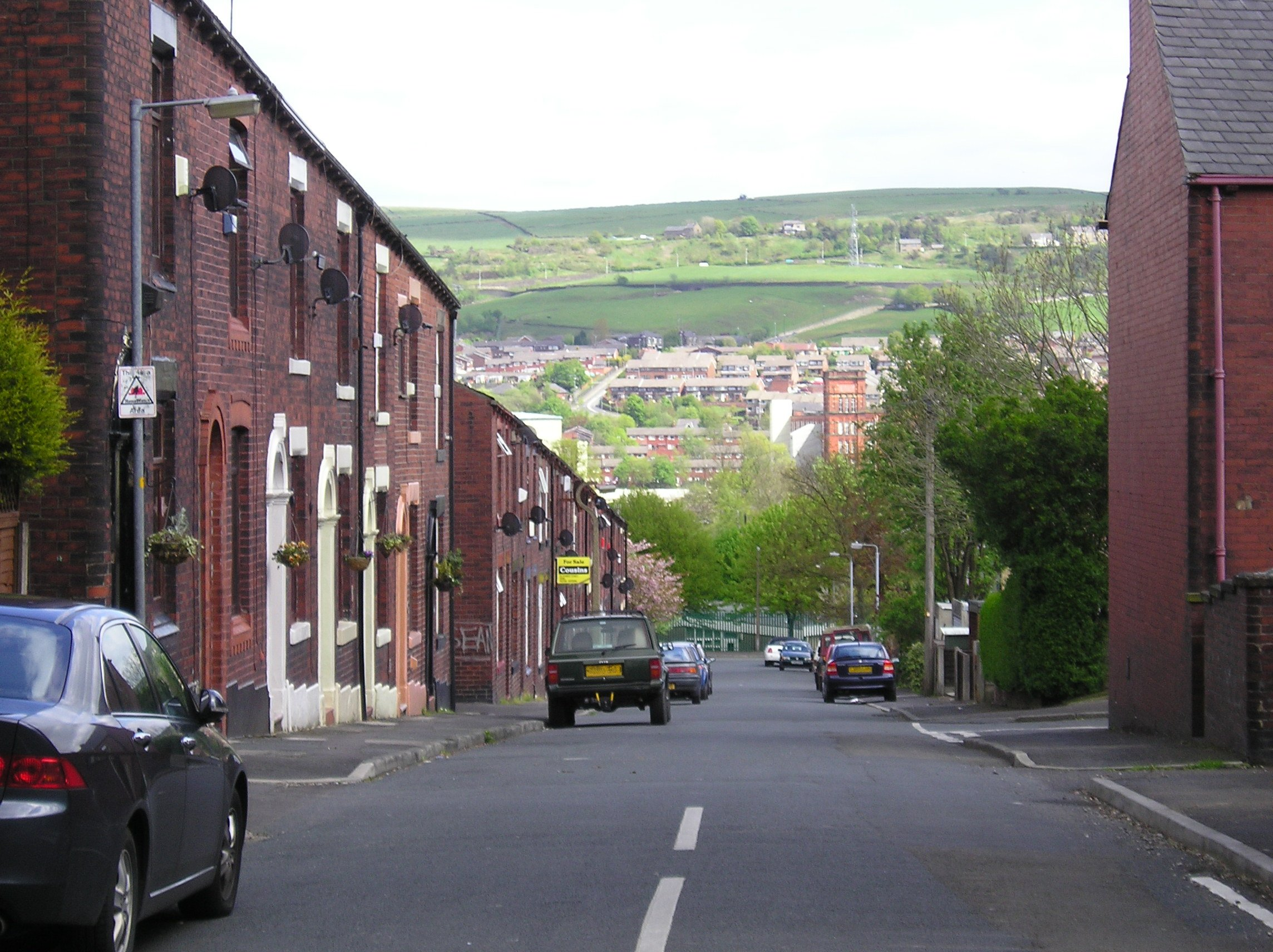 Alfred Street in Shaw and Crompton, Greater Manchester